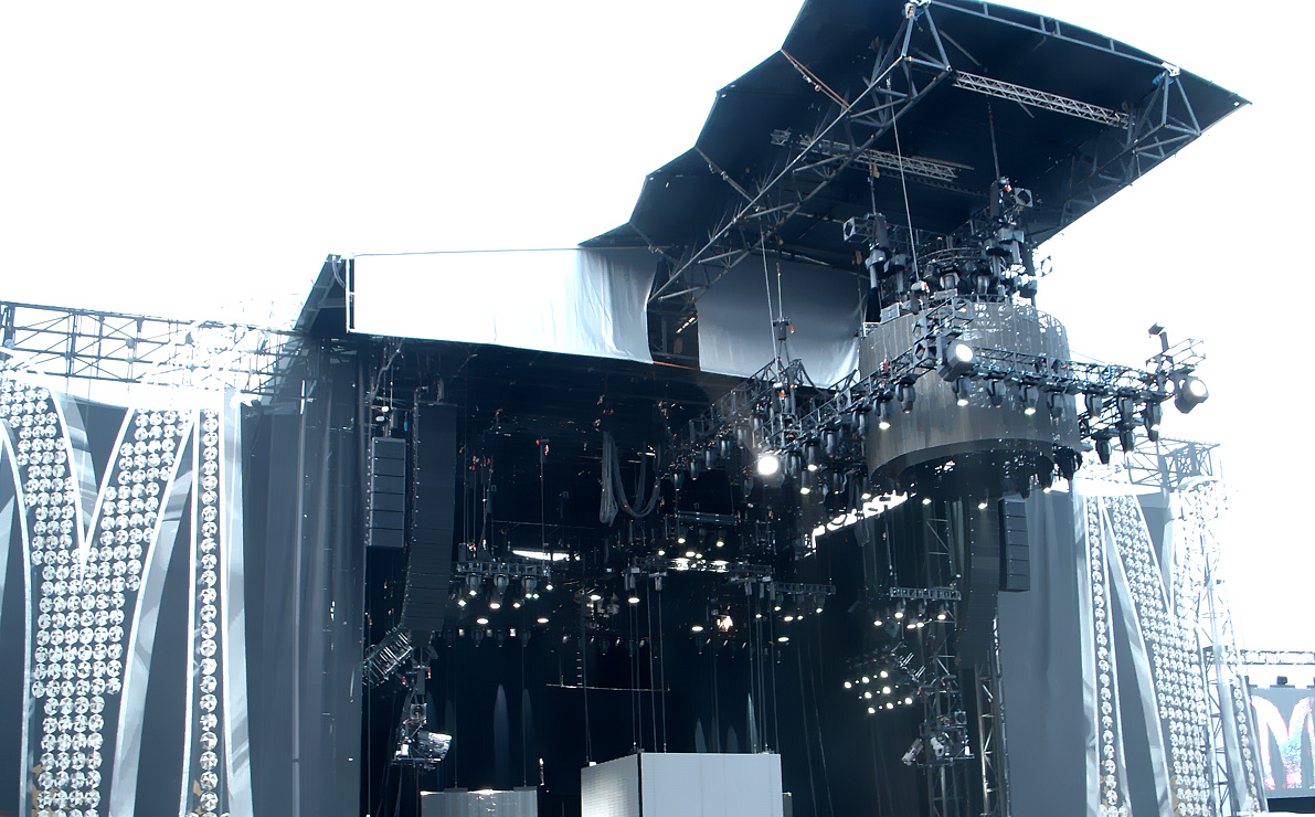 Madonna Sticky and Sweet Tour in 2009.